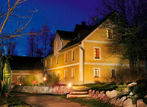 Haus Sieben in Janowice Wielkie